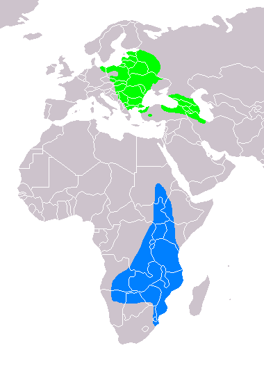 Distribution of Aquila pomarina nesting area resident all year wintering area